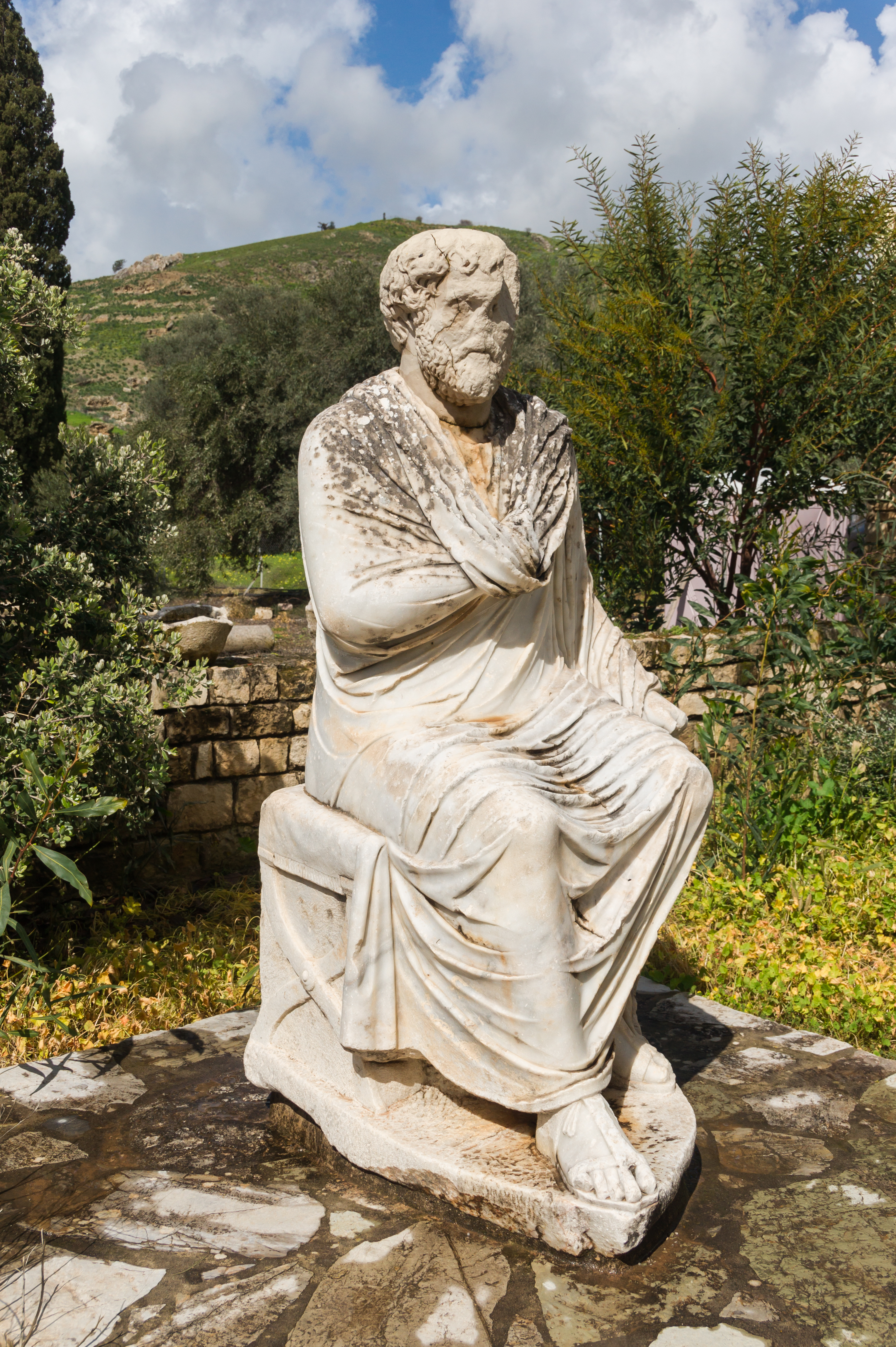 Statue of a sitting philosopher, Gortys, Crete, Greece.